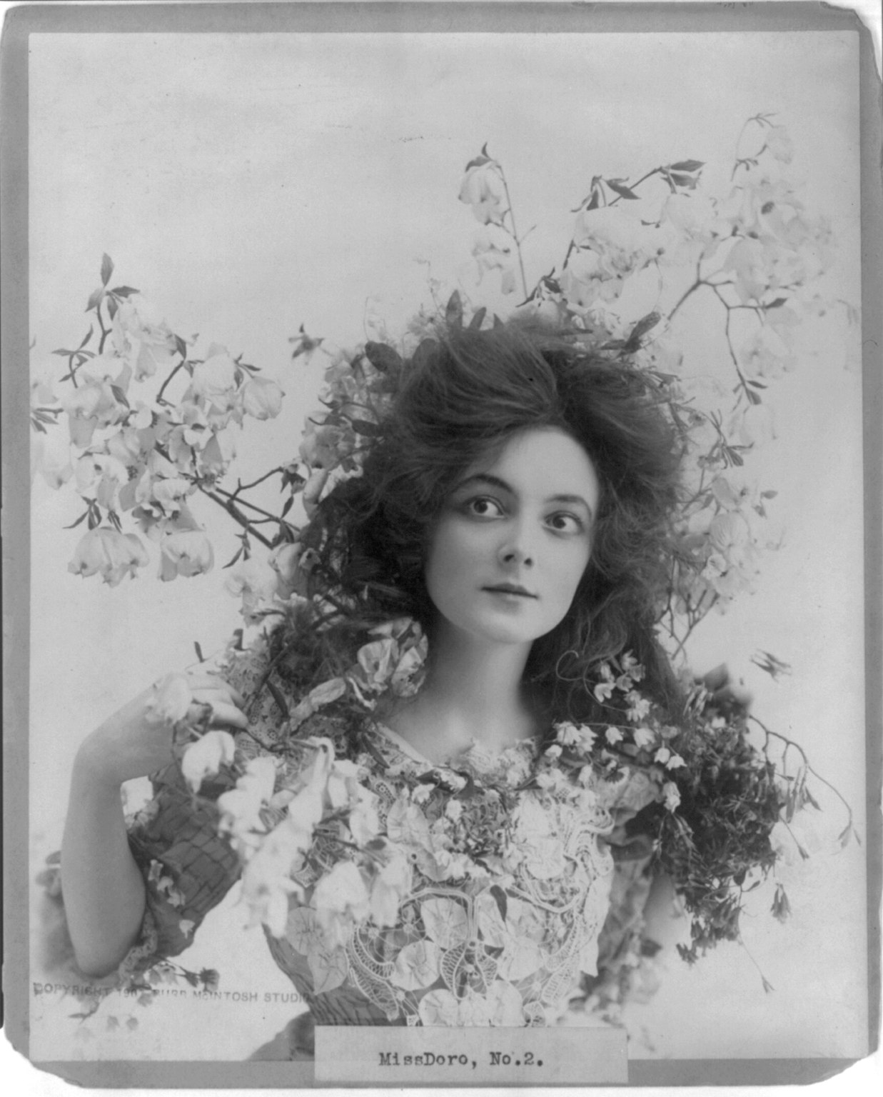 Title: Miss Doro, no. 2. Abstract/medium: 1 photographic print.